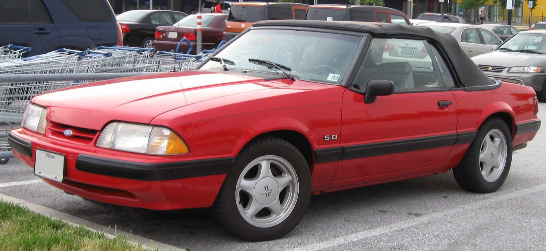 1987-1993 Ford Mustang photographed in College Park, Maryland, USA.